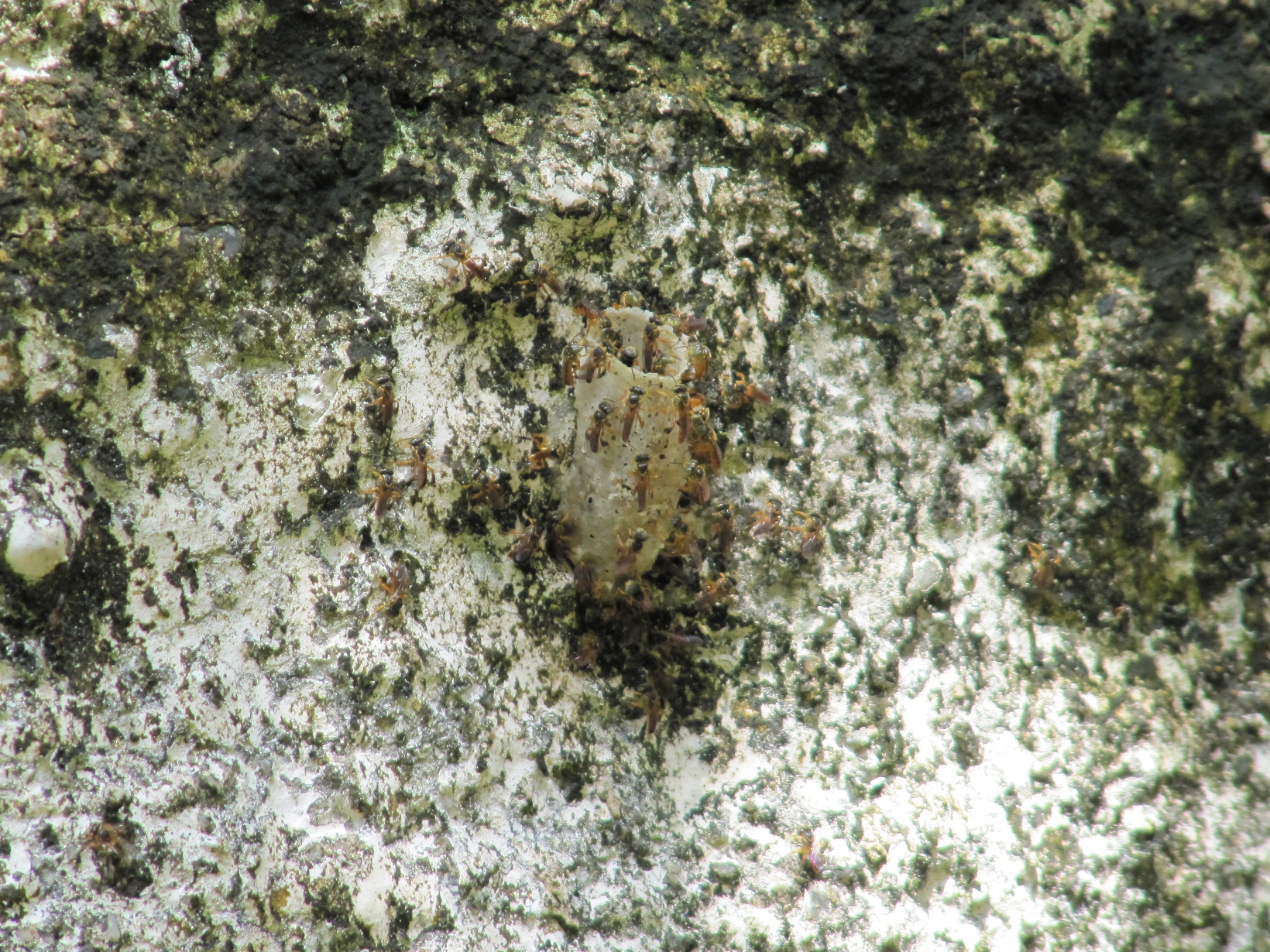 Entrance to the concealed beehive of Jataí bees (Tetragonisca angustula). Spotted in a wall in Brazil.